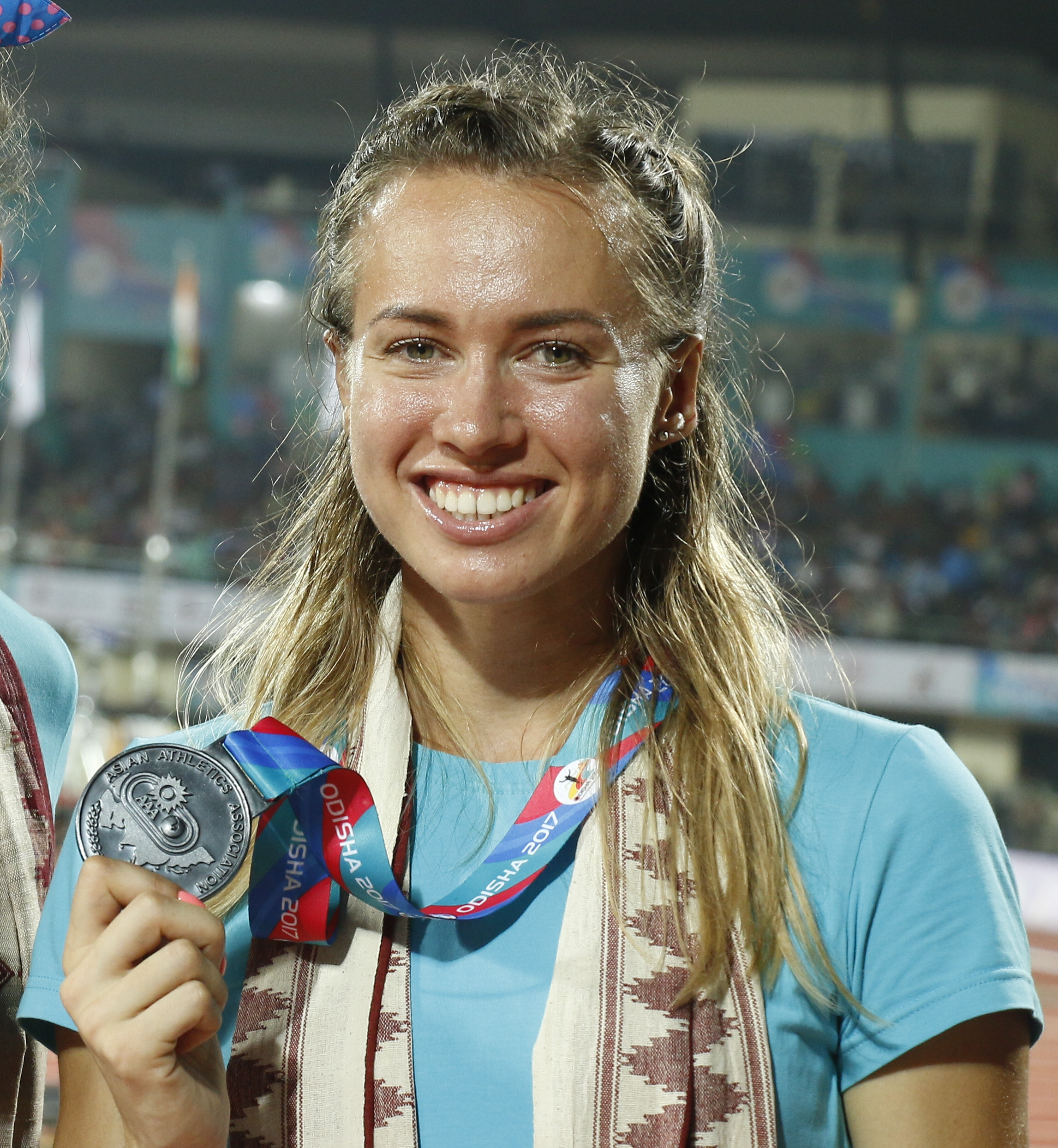 2017 Asian Athletics Championships at the Kalinga Stadium in Bhubaneswar, India